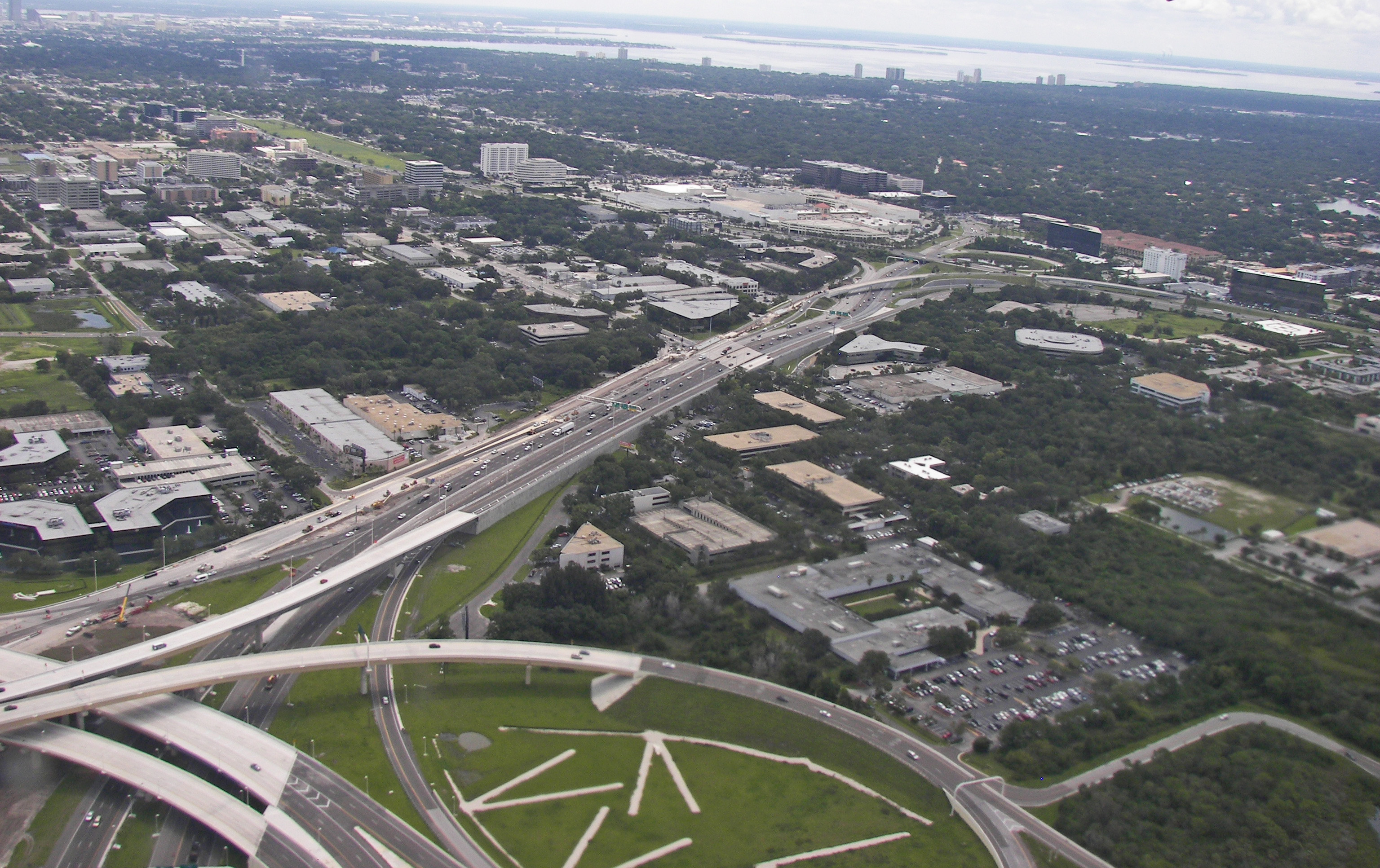 Aerial view looking southeast at the Memorial Highway/Florida State Road 60 in the Westshore area of Tampa, Florida.